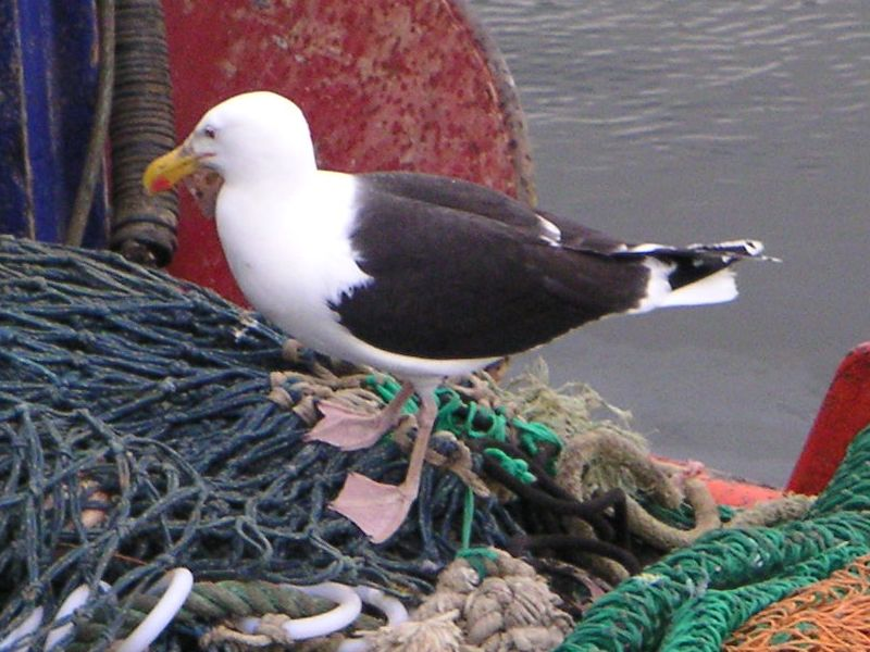 Great Black-backed Gull, Larus Marinus Author: Wojsyl, 2004